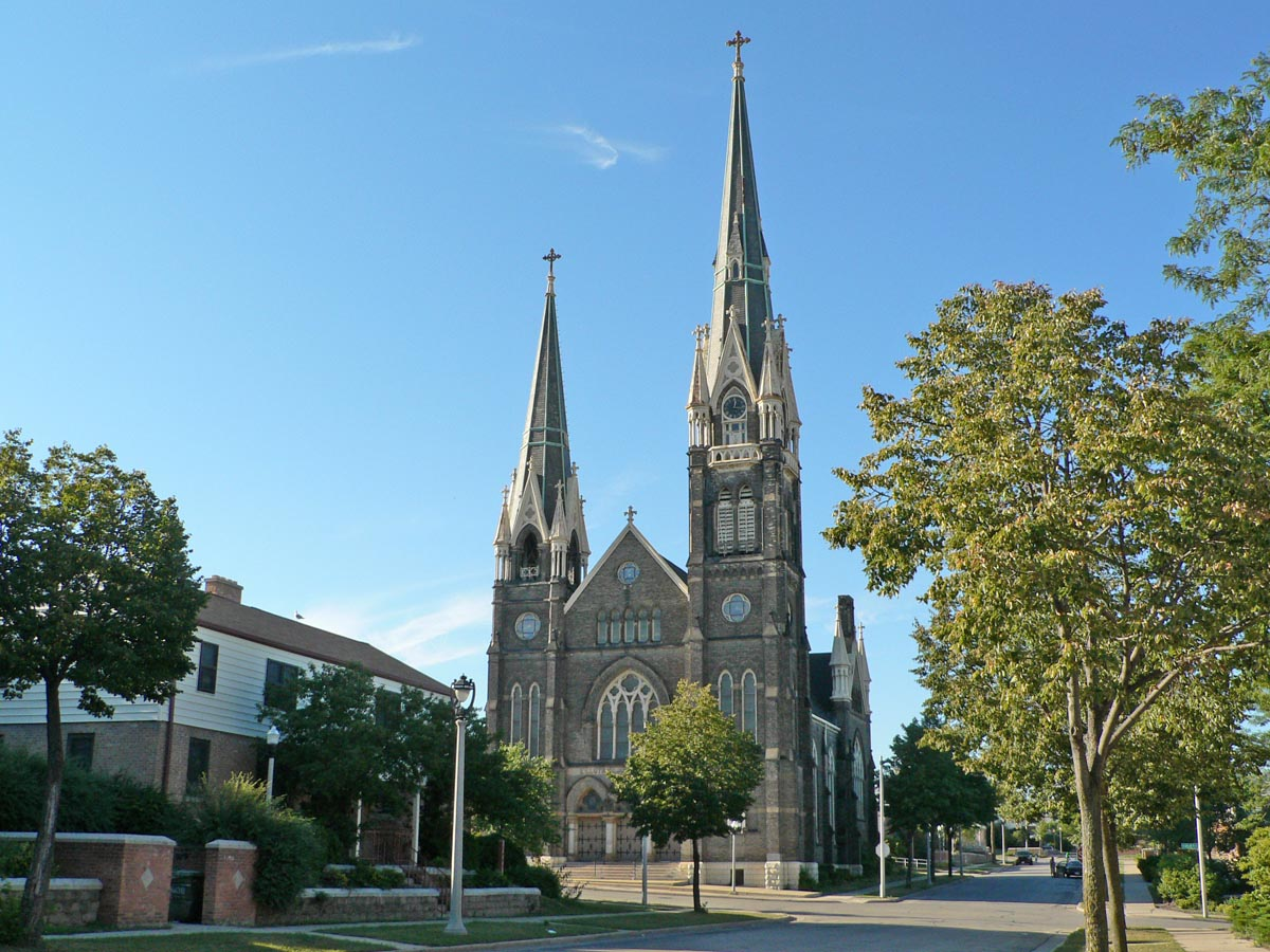 Copyright © 2006 Sulfur St. John's Evangelical Lutheran Church, located near the historic Pabst Brewery complex in downtown Milwaukee, Wisconsin.